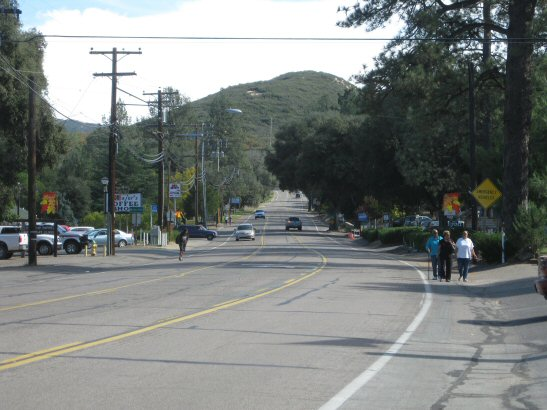 Old Highway 80 in Pine Valley CA. NOTE: This photograph has been reduced in size and resolution so individuals on the street will not be recognizable.